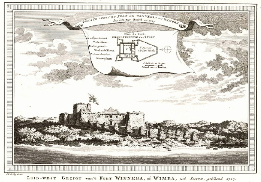 South West View of Fort Winneba Winneba, Ghana by Jacobus van der Schley from a sketch by William Smith who wrote: "This Fort is exactly the same Plan and Dimensions as Tantumquery, nor is the Landing-Place any better. The Fort stands on a rising Ground about Fourteen Yards from the Seaside, having a handsome Avenue of Trees up to the Outer Gate. Here is also a large Spurr, which contributes very much to the Strength and Usefulness of the Fort, being a safe Place to secure their Cattle at Night from the Wild Beasts. Here also are very good Gardens; all which together render the Place pleasant and Comfortable enough"